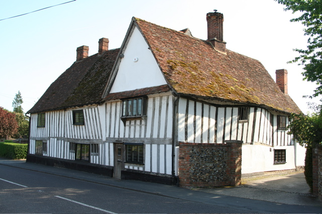 The Hovells, Frogge Street, Ickleton, Cambridgeshire, seen from the north